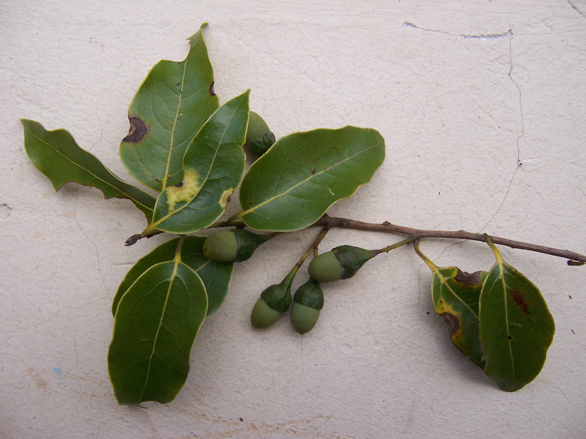 twig with leaves and unripen fruit of Ocotea obtusata, a tree species endemic to Mascarene islands (Réunion and Mauritius), sample coming from Petit Serré place (Saint-Joseph)